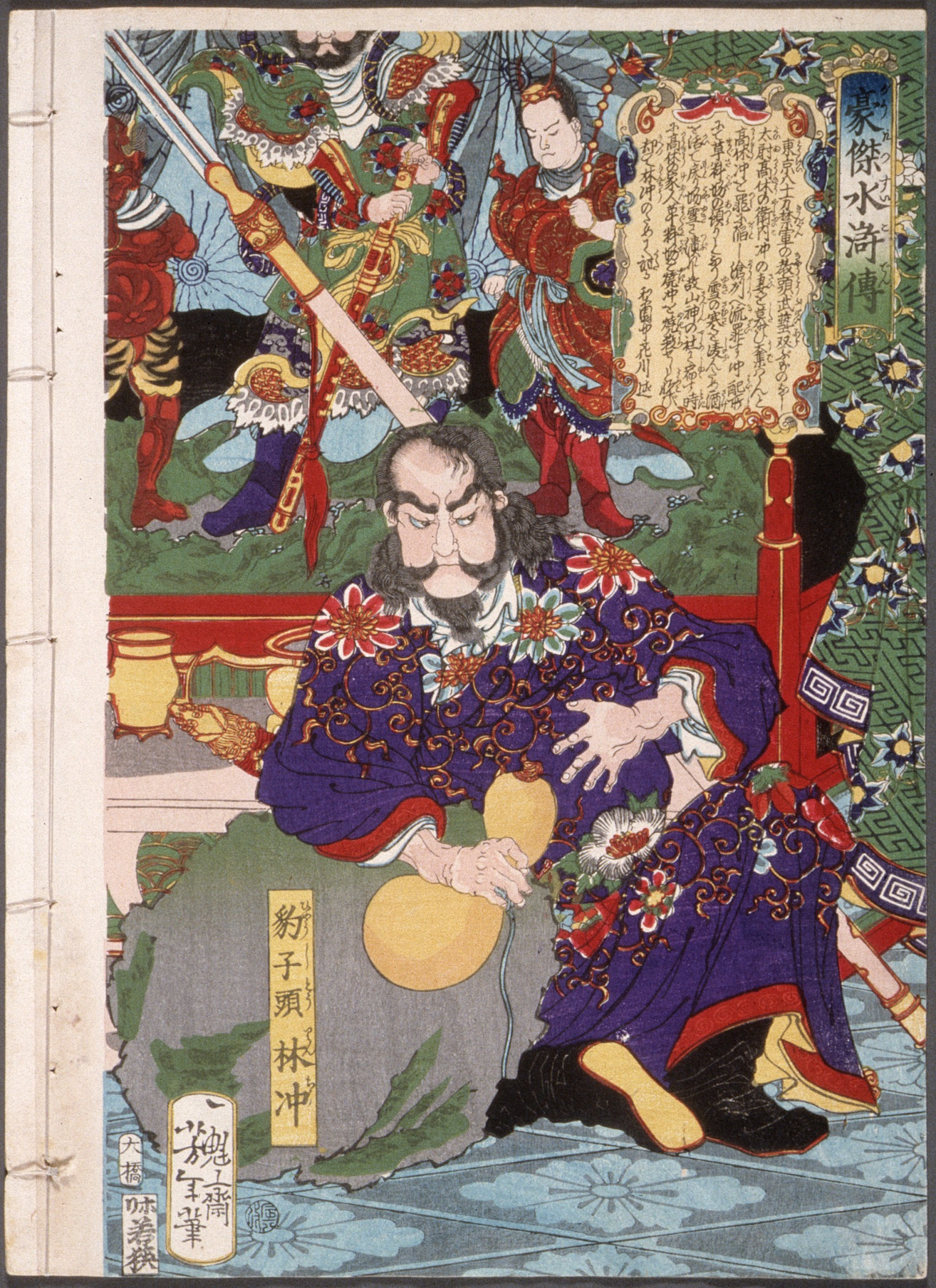 Japan, 7-8/1868 Alternate Title: Gogetsu Suikoden Prints; woodcuts Set of 5 color woodblock prints, sewn at edge Herbert R. Cole Collection (M.84.31.266) Japanese Art